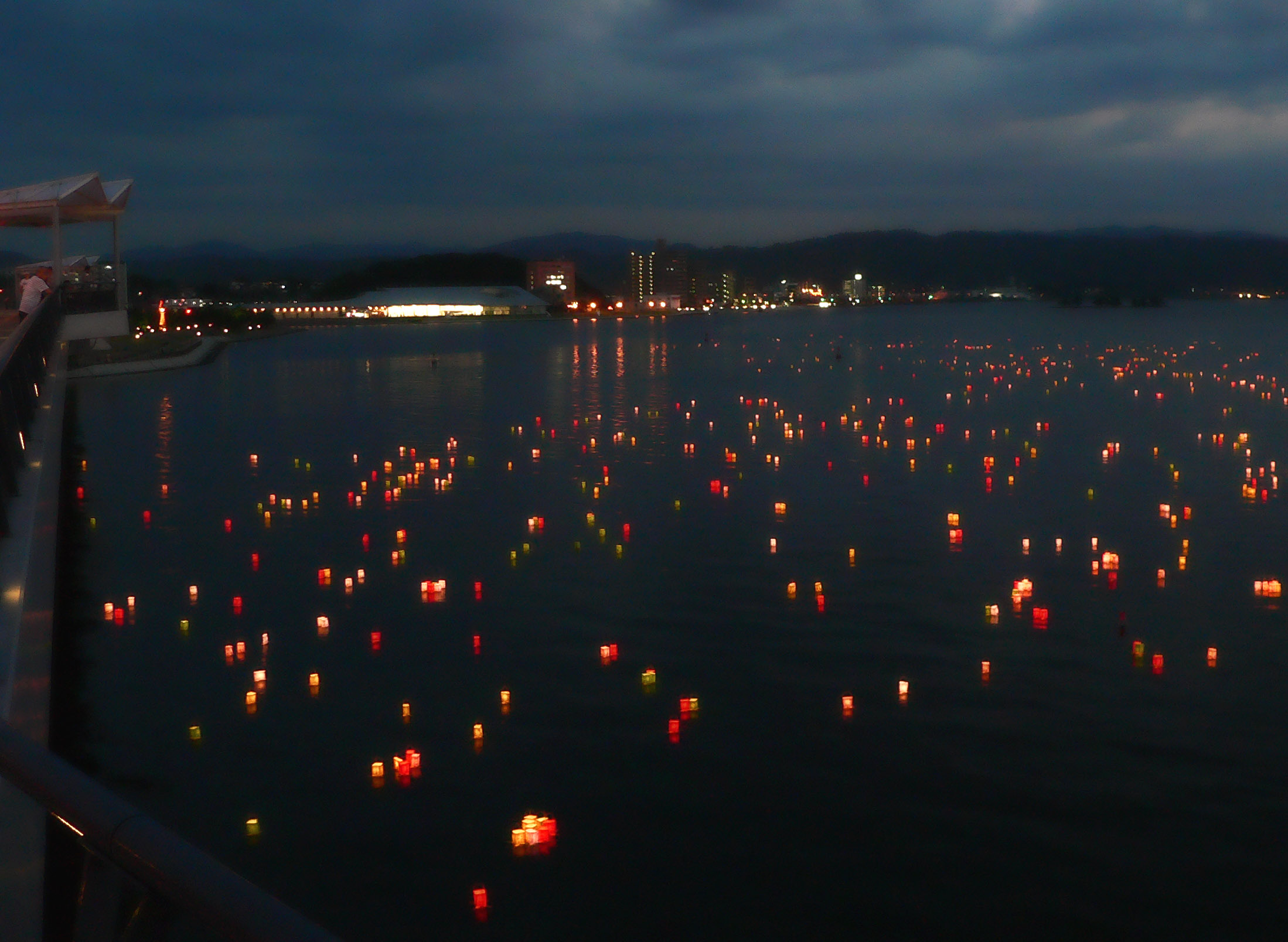 At the end of the Obon festival in Matsue, Japan, paper lanterns are place on Lake Shinji, symbolizing the departure of ancestor spirits to the other world.